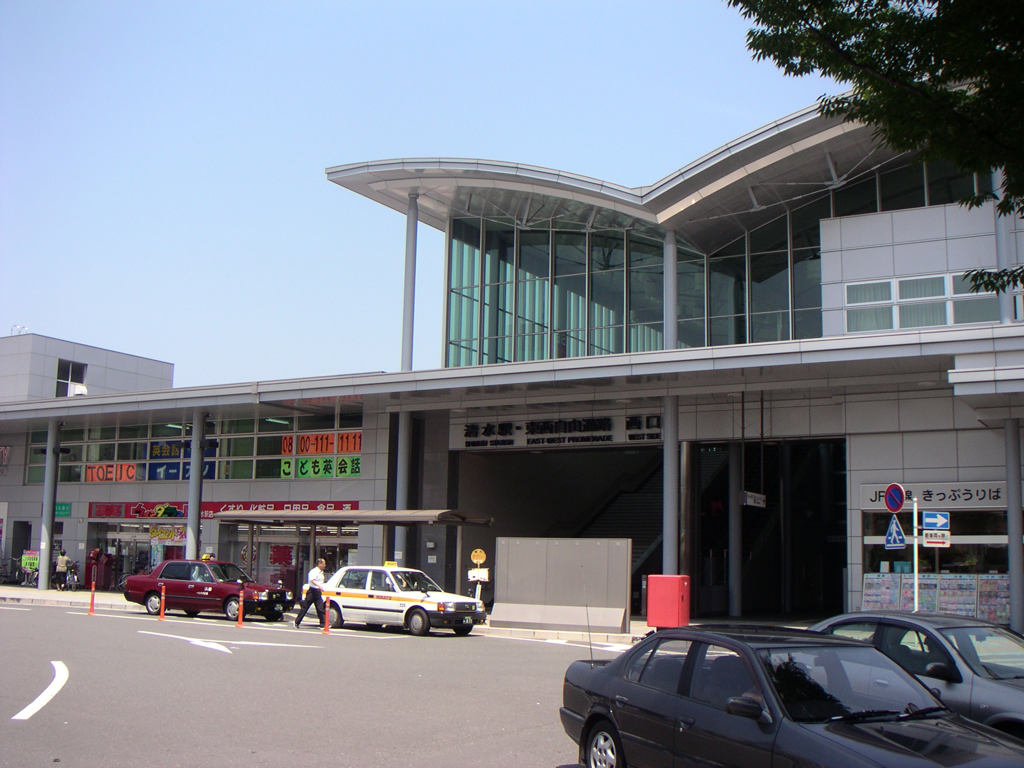 Shimizu Station